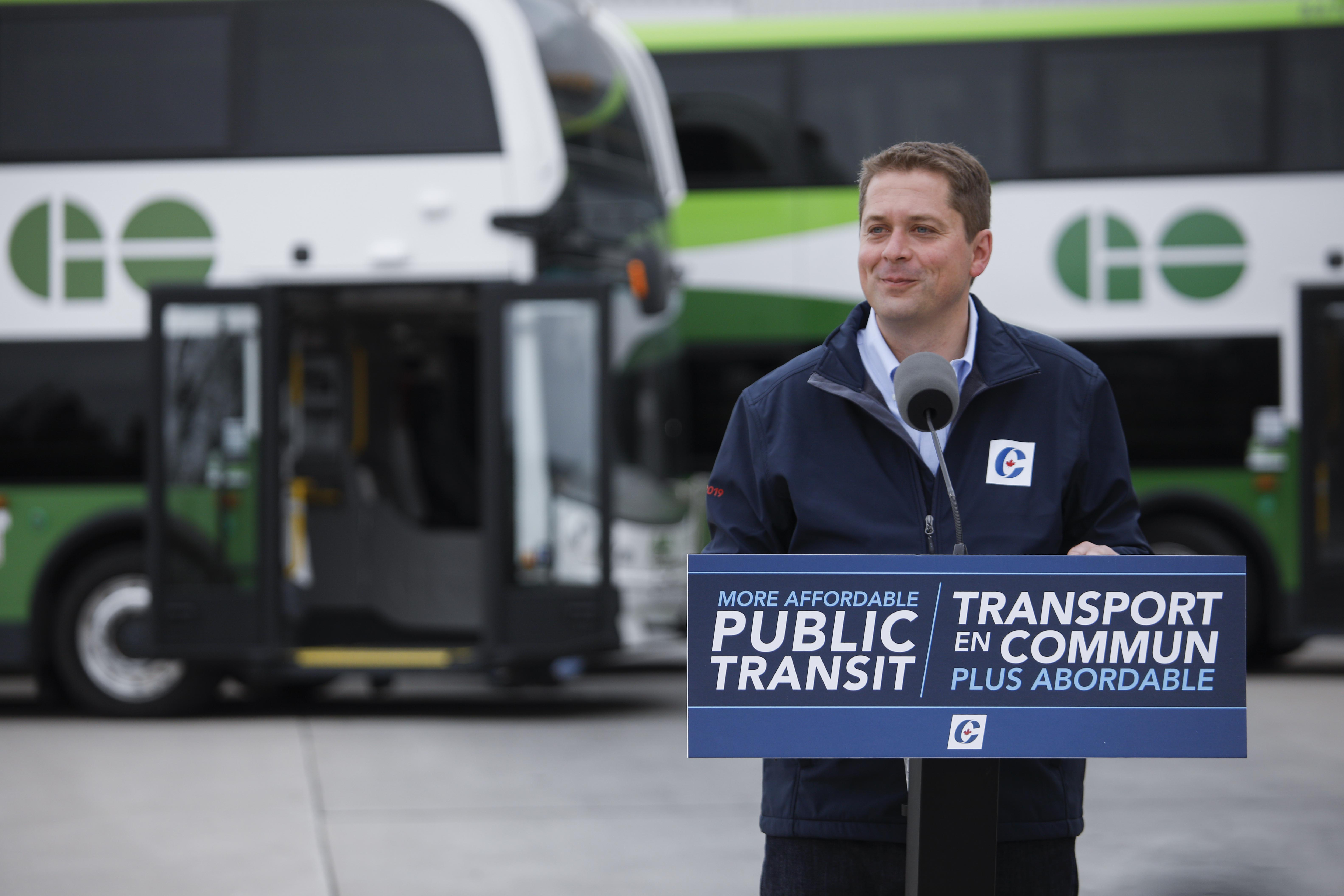 Today in Mississauga I revealed our Green Public Transit Tax Credit to put more money in the pocket of our transit users and commuters. We want you to be able to get home on time, without worrying about your bottom line.